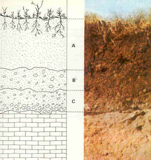 Vertical Structure of a typical soil. Red Mediterranean soil.